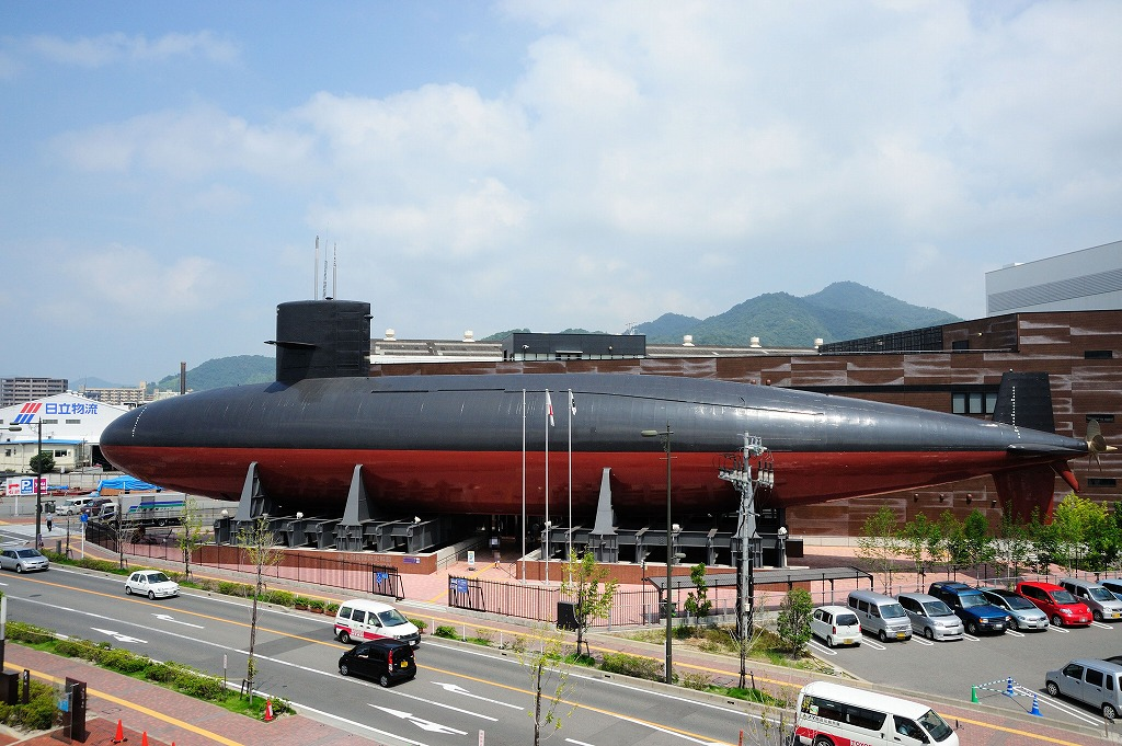 Tetsu No Kujira Kan（Japan Maritime Self-Defense Force Kure Museum）at kure hiroshima japan. submarine Akishio.